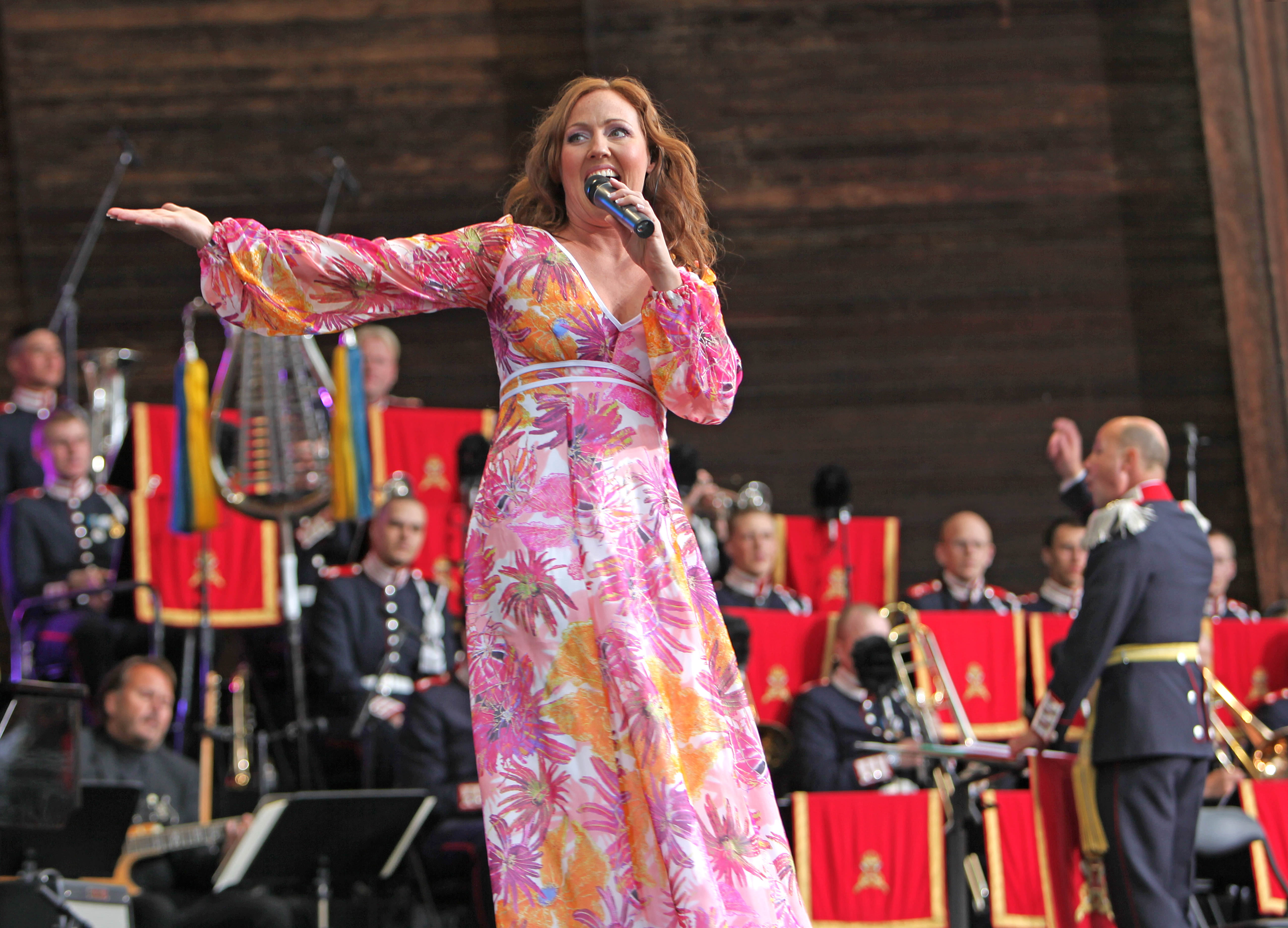 Swedish singer Hanna Hedlund performing at Skansen, Stockholm.